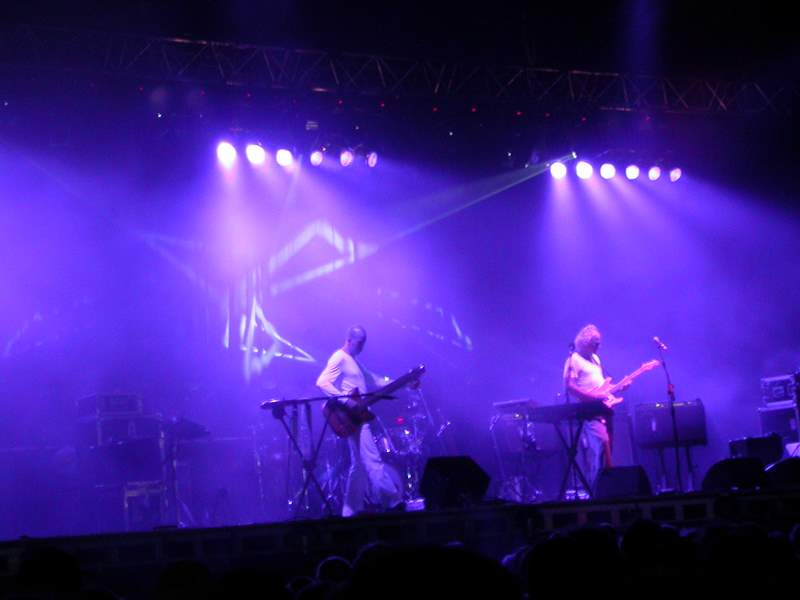 King Crimson at the Dour Festival, 2003.